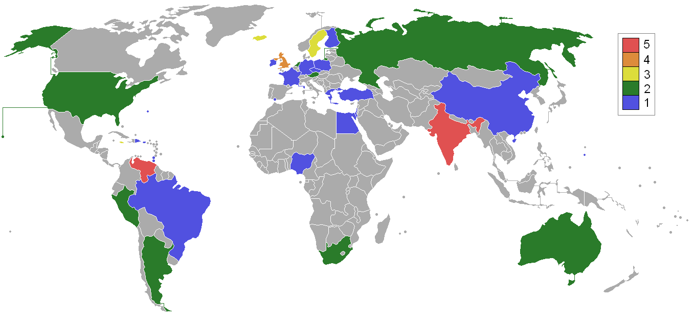 Map of Miss World-winning countries as of 2009.